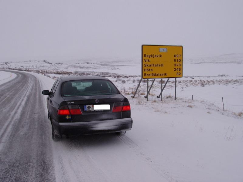 Distance-sign on Hringvegur near Egilsstadir